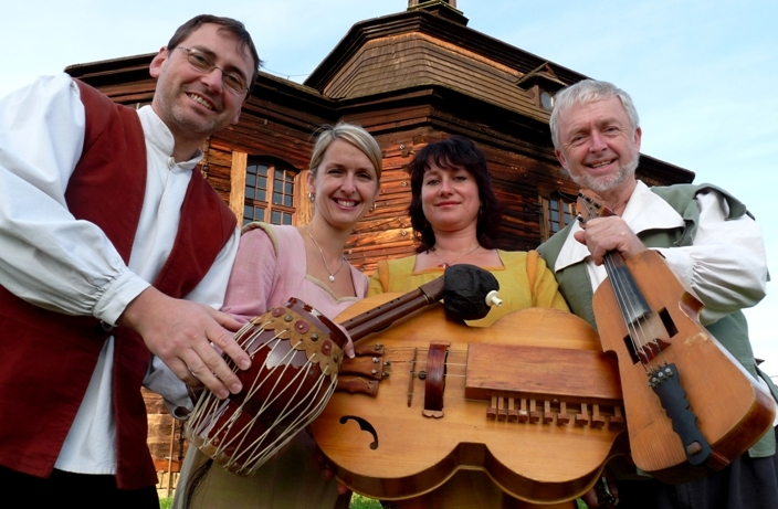 Czech folk group "KANTOŘI"